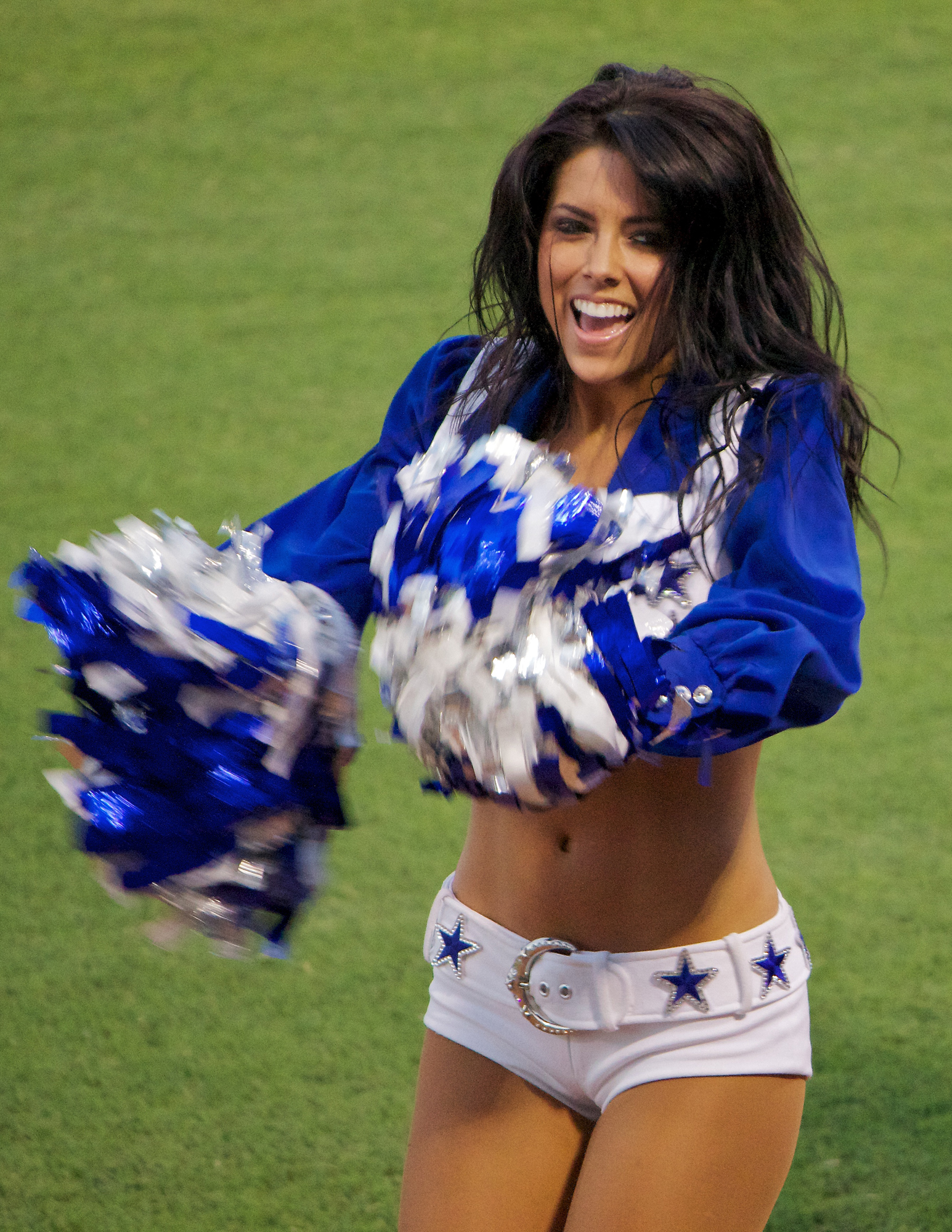 The Dallas Cowboys Cheerleaders performing at Arvest Ballpark on July 16, 2011.